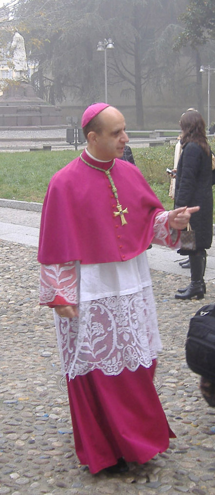 Archbishop Rino Fisichella in Codogno